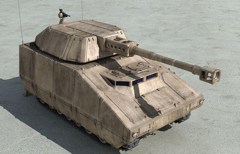 Computer-generated image of the prospective Future Combat Systems Mounted Combat System